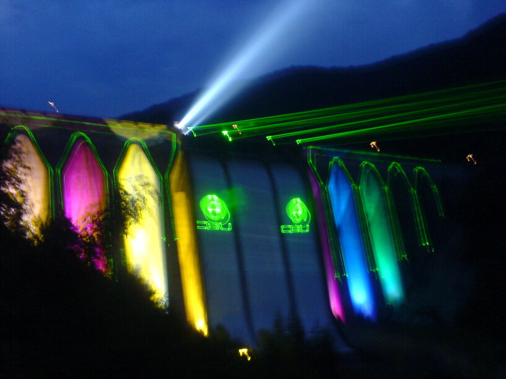 Gura Raului Dam, at fusion Festival